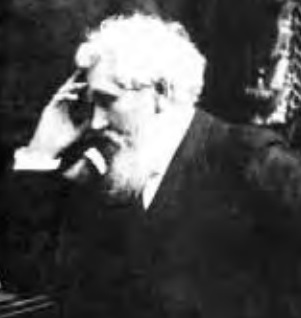 Cropped 1890 image of California Supreme Court Justice Thomas B. McFarland